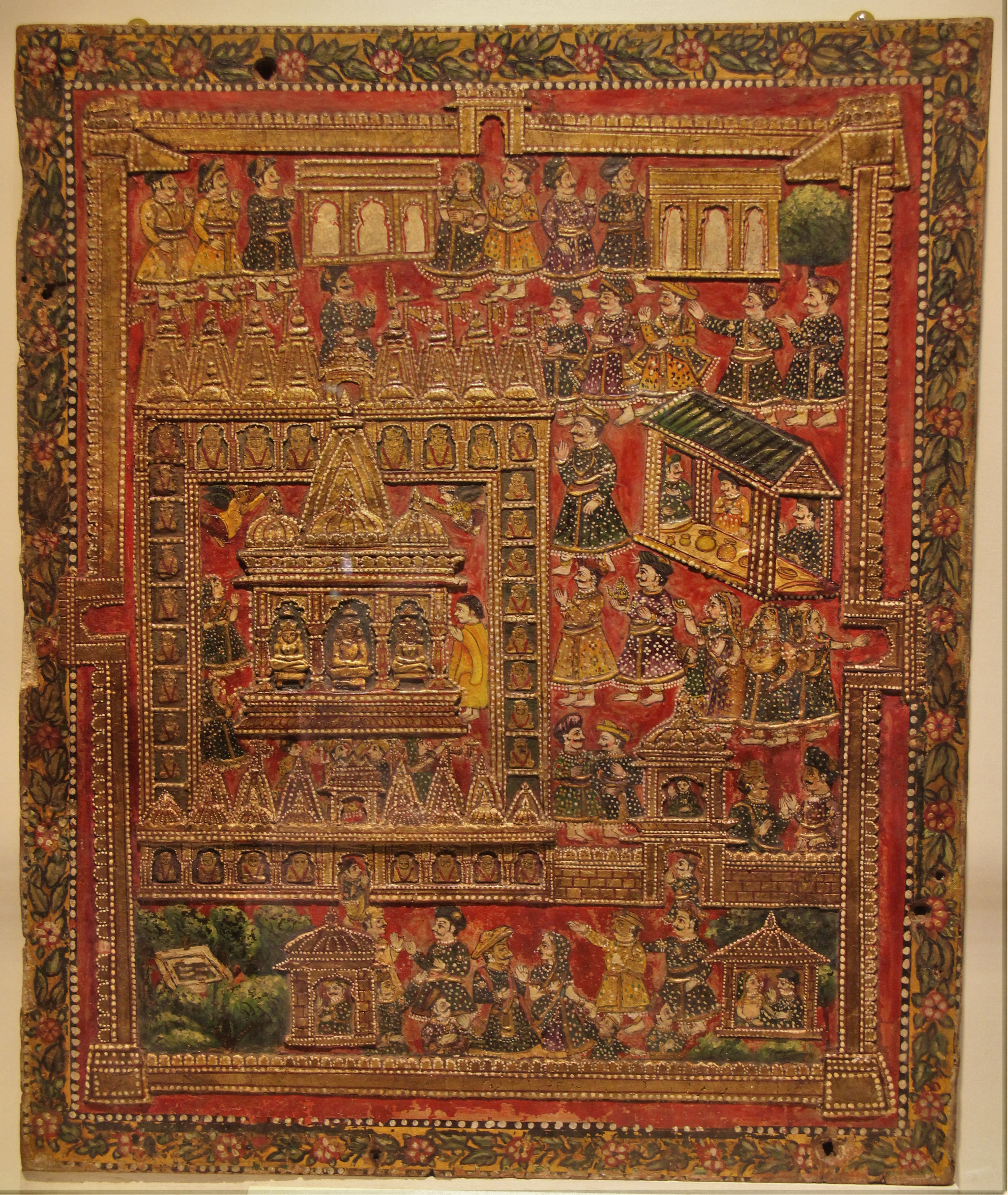 The Shwetambara Jains hold five centers of pilgrimage to be most sacred. These places are Shatrunjaya and Girnar in Gujarat, Abu in Rajasthan, Sammeda in Bihar and Ashtapada in Himalayas. People who are unable to go for the pilgrimage, can achieve its religious merits by viewing cartographical overviews of the pilgrimage site (called Tirthapata). Every year (in Oct-Nov), “Tirthapata” is hung in the vicinity of a Jain temple or at a prepared location for devotees to worship. This Tirthapata is from 20th century CE and on display in the "Prince of Wales Museum, Mumbai" (Chhatrapati Shivaji Maharaj Vastu Sangrahalaya).